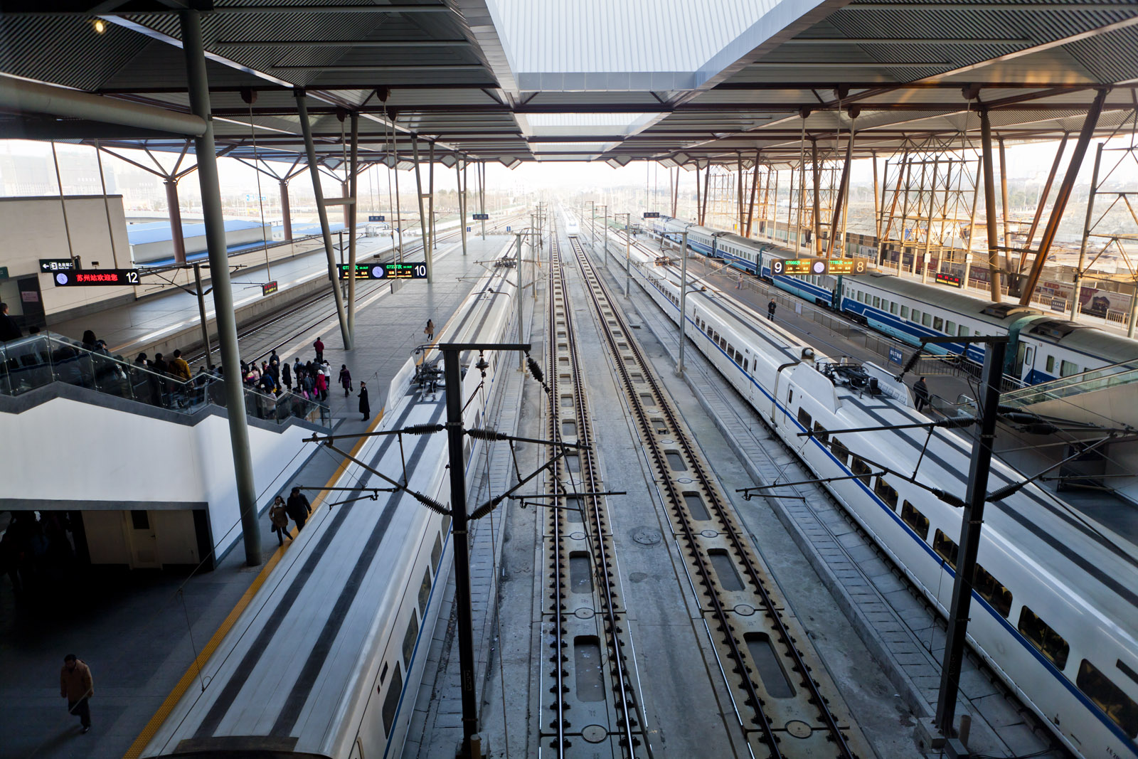 Suzhou Station Platforms